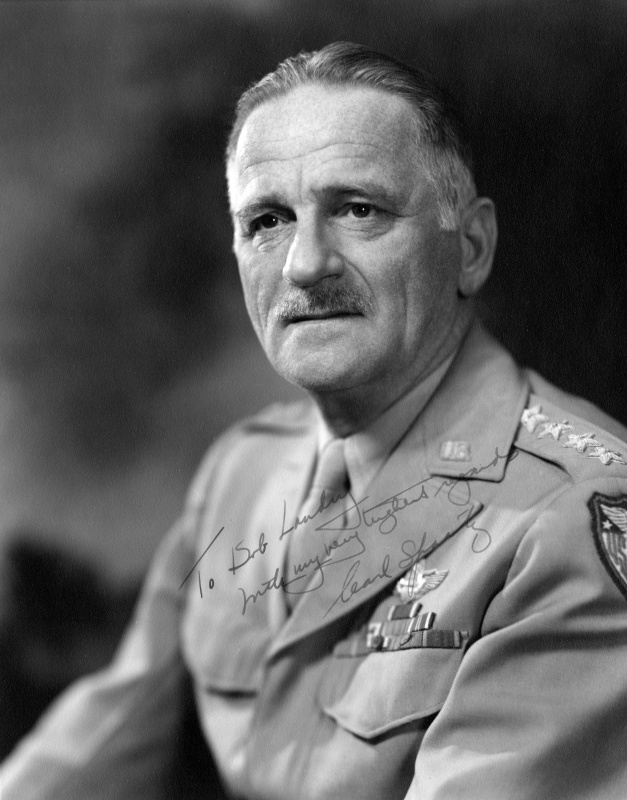 Carl Spaatz, USAAF General.